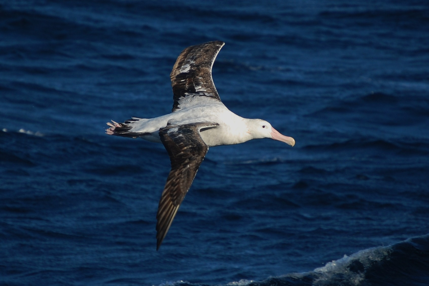 A Wandering albatross flying in Southern Ocean, Drake's Passage.